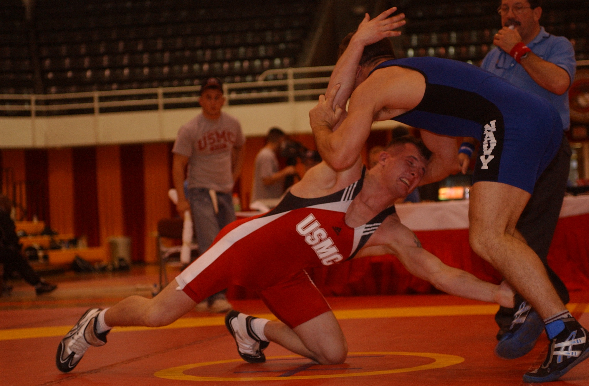 Marine Cpl. Steven Forrest, Camp Lejeune, N.C., attacks Navy Lt. Grant Whitmer, Mobile Security Squad 3, in the freestyle 74-kilogram class competition. Forrest was a silver medalist in the freestyle competition. Whitmer won the gold medal in the 74-kilogram Greco-Roman discipline. Photo by Jamie Cameron.